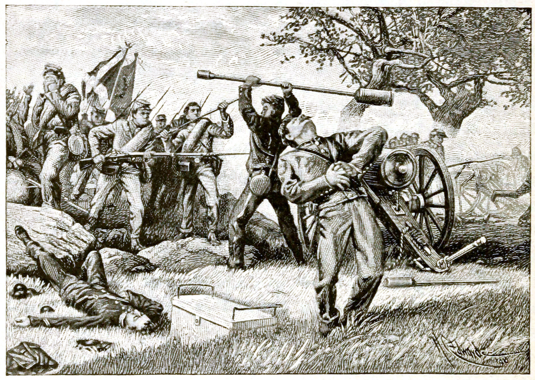 Depiction of cadets from the Virginia Military Institute at the Battle of New Market (1864) during the American Civil War. Engraving by H. C. Edwards (signed lower right) captioned "Cadets at New Market" from a 1903 American history textbook A School History of the United States (available at the Internet Archive). (cropped and level adjusted)